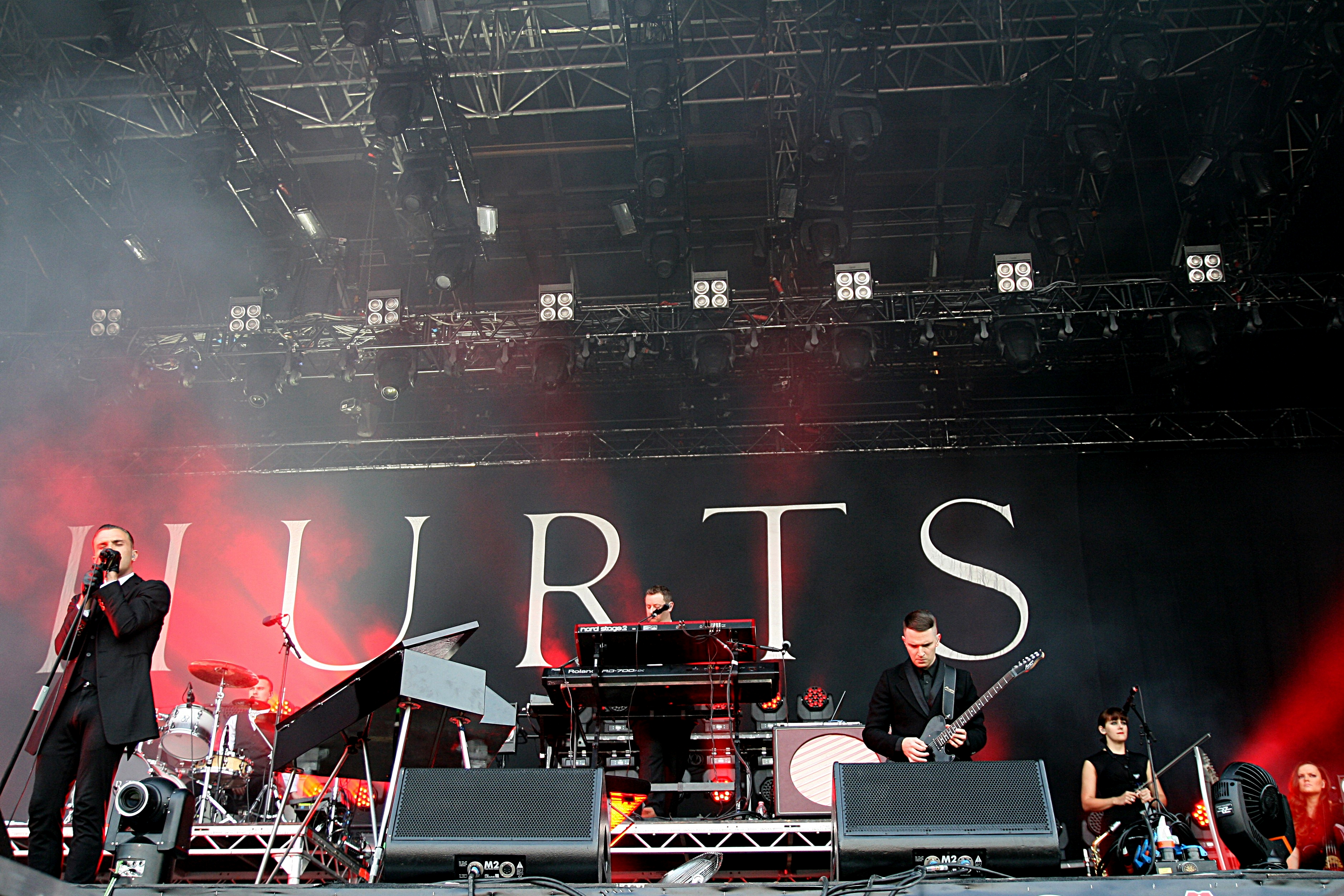 Hurts perform on the Alterna Stage of Rock im Park-Festival 2013. Festivalsommer This photo was created with the support of donations to Wikimedia Deutschland in the context of the CPB project "Festival Summer".